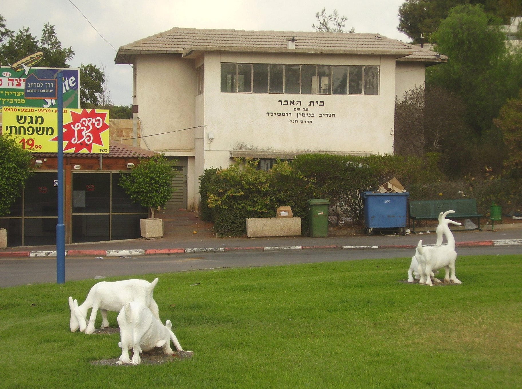 Beit HaIkkar (the Farmer's House) in Pardes Hanna, Israel